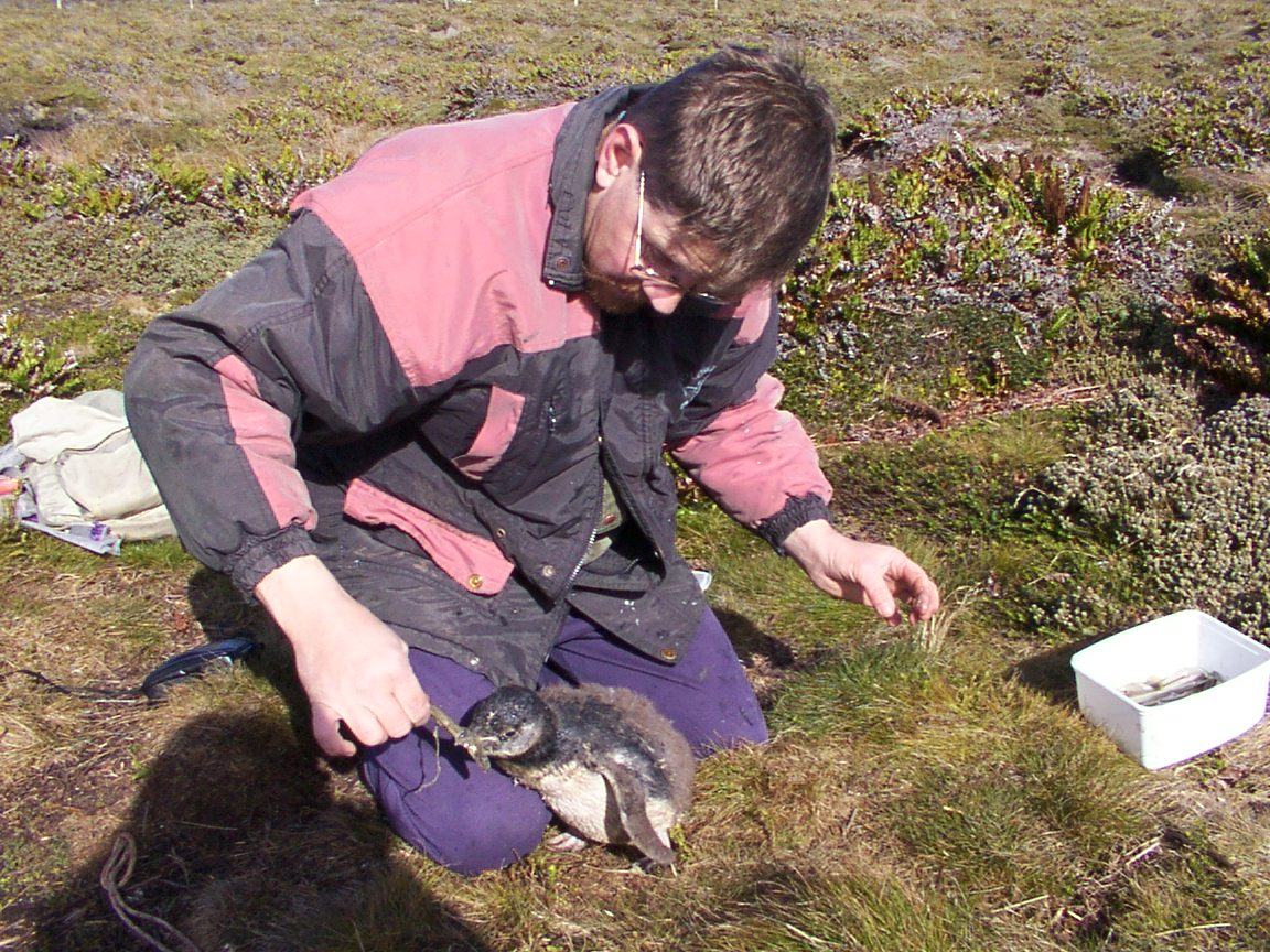 Mike Bingham